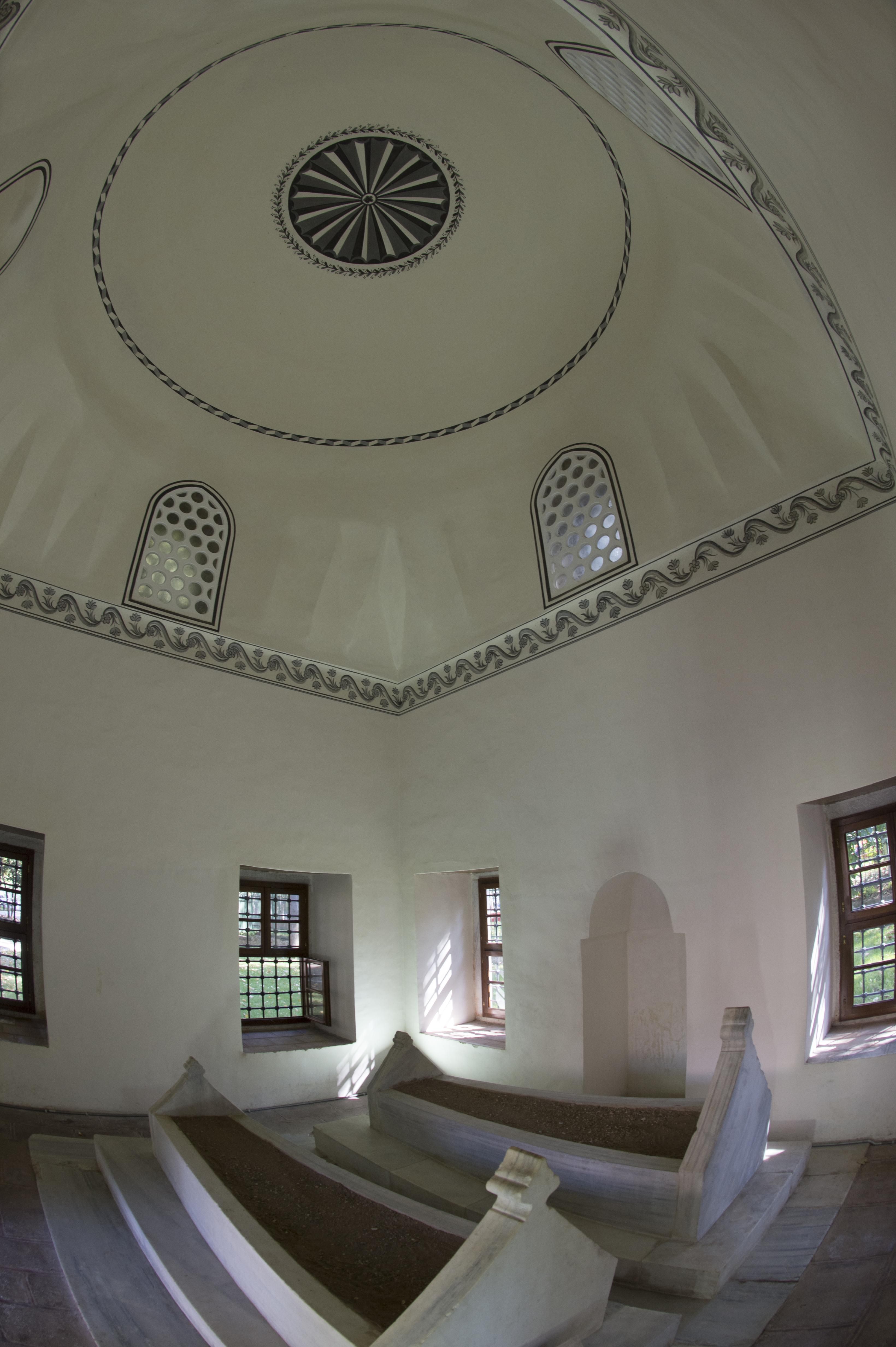 Gülshah Hatun was a wife of Mehmet the Conqueror and the mother of Prince Mustafa. It was built while Gülshah Hatun was alive, she died in 1487. Inside are two marble tombs, the one right of the entrance is that of Gülshah Hatun, the identity of the person in the other is unknown. The mausoleum was restored in 2013.